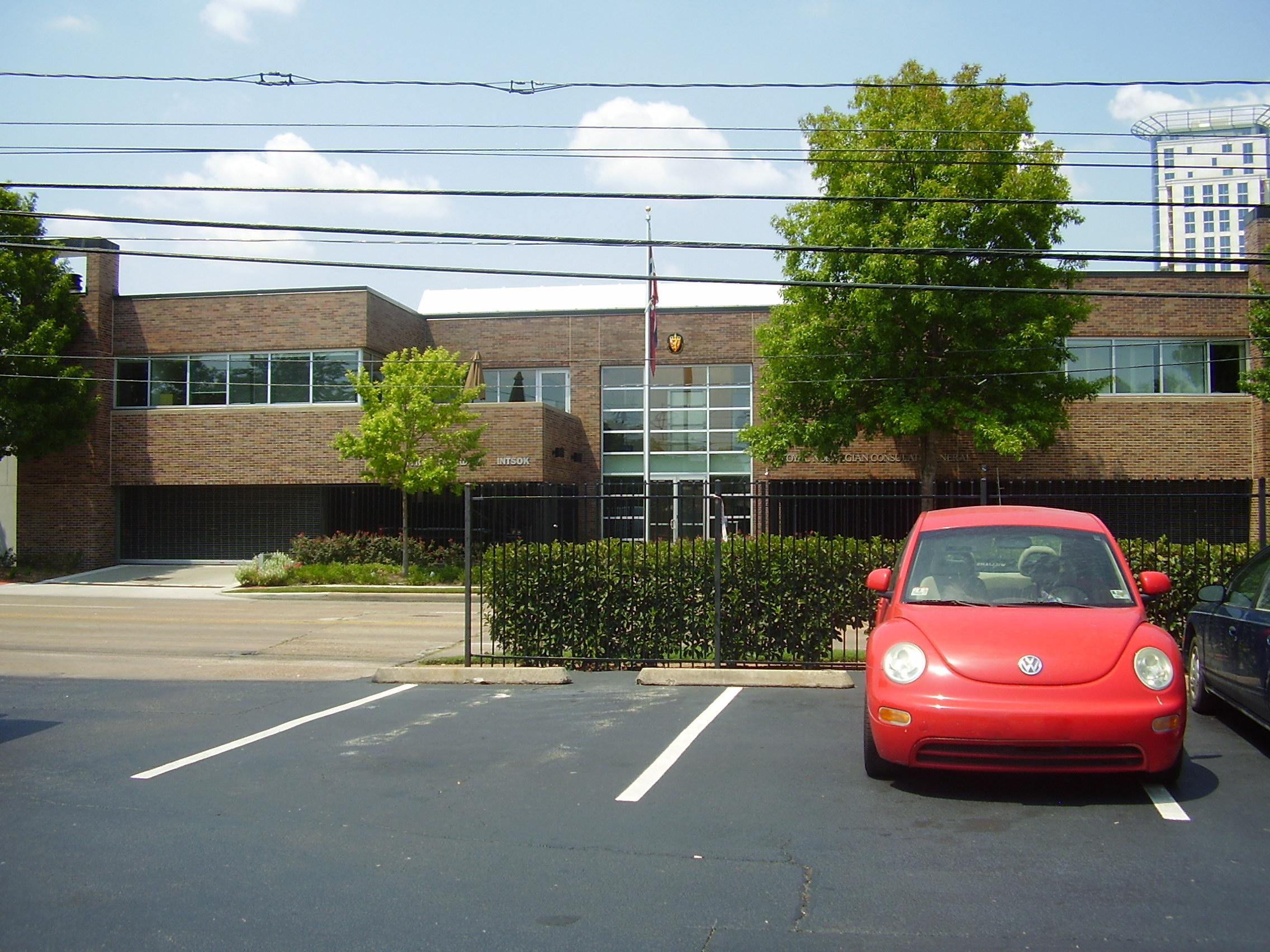 Norway House, which houses the Norwegian Consulate General, Houston